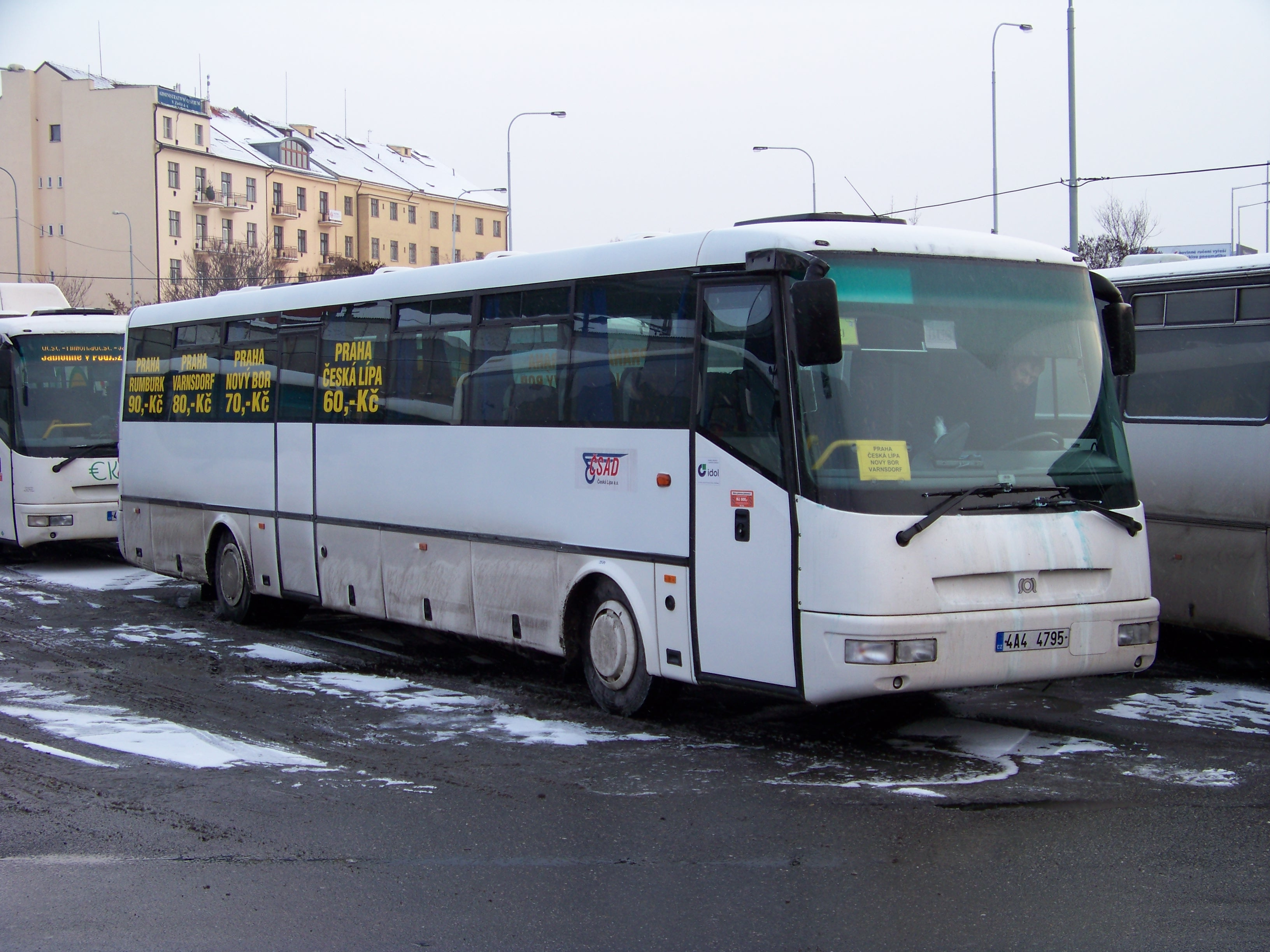 Holešovice, Prague, the Czech Republic. Intercity bus station "Praha, Nádraží Holešovice". A bus SOR of ČSAD Česká Lípa. - Google Maps - Google Earth